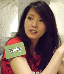 "Elsie" (Yeh Chuan Chen, 葉全真, Ye Quanzhen)